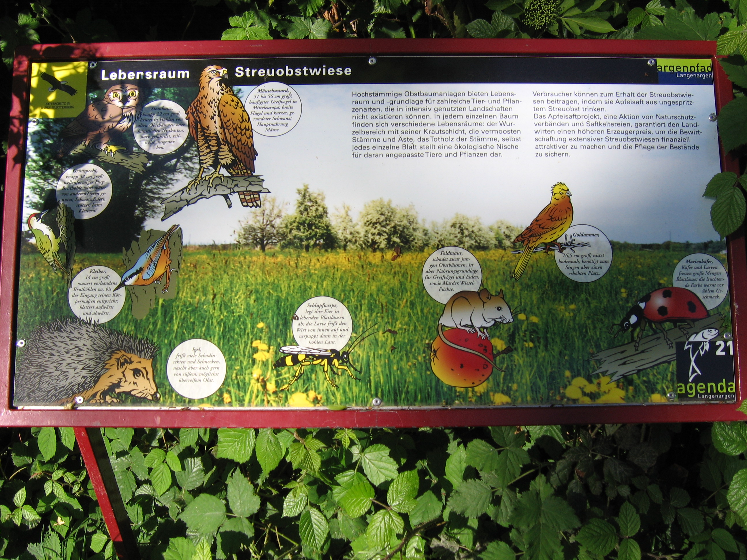 Germany - Baden-Württemberg - Bodenseekreis - Langenargen: protected area "Argenaue Reutenen", information